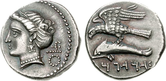 KINGS of CAPPADOCIA Ariarathes I 333-322 BC